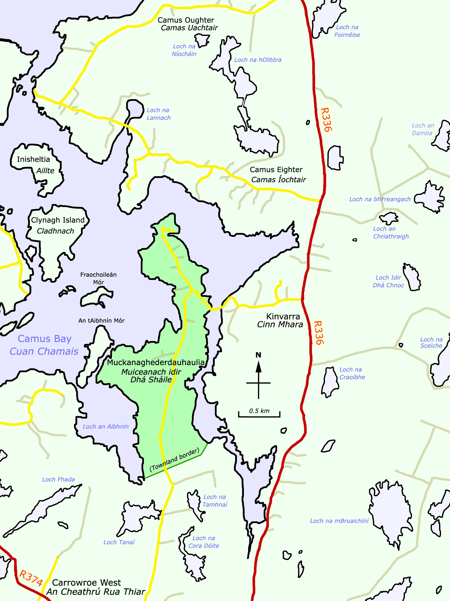 The peninsular townland of Muckanaghederdauhaulia (Irish:Muiceanach idir Dhá Sháile) in Camus Bay on the Atlantic seaboard of County Galway in Ireland is indicated by the darker shade of green on this map. Features are labelled in both the English and Irish languages. Regional roads appear in red; local roads in yellow; and minor roads (boreens) in brown. The townland is 1.4 km (0.87 miles) long and 0.75 km (0.47 miles) across at its widest, equivalent to 190 hectares (470 acres).